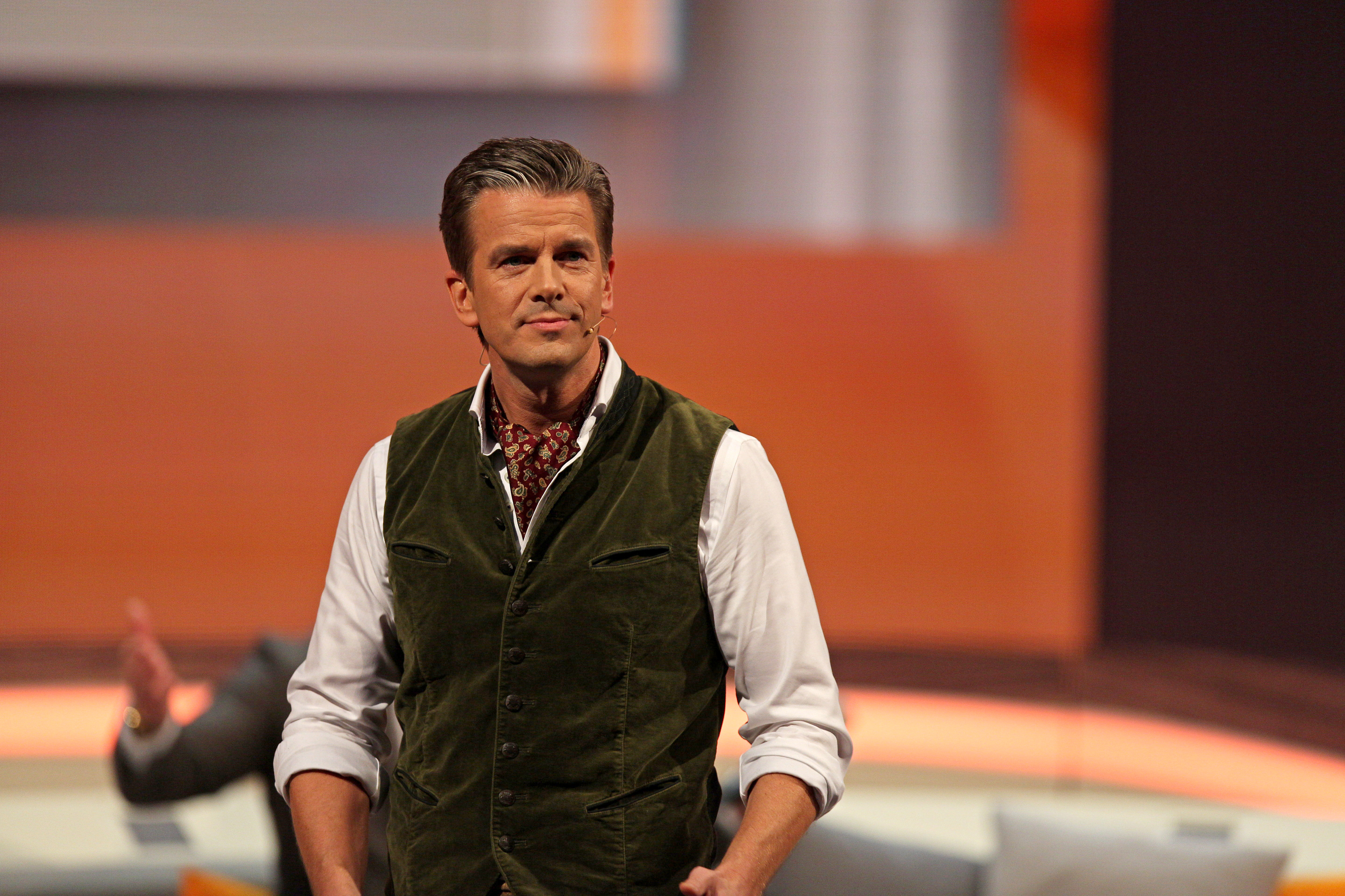 Markus Lanz at 214th Wetten, dass.. ? show in Graz, 8. Nov. 2014